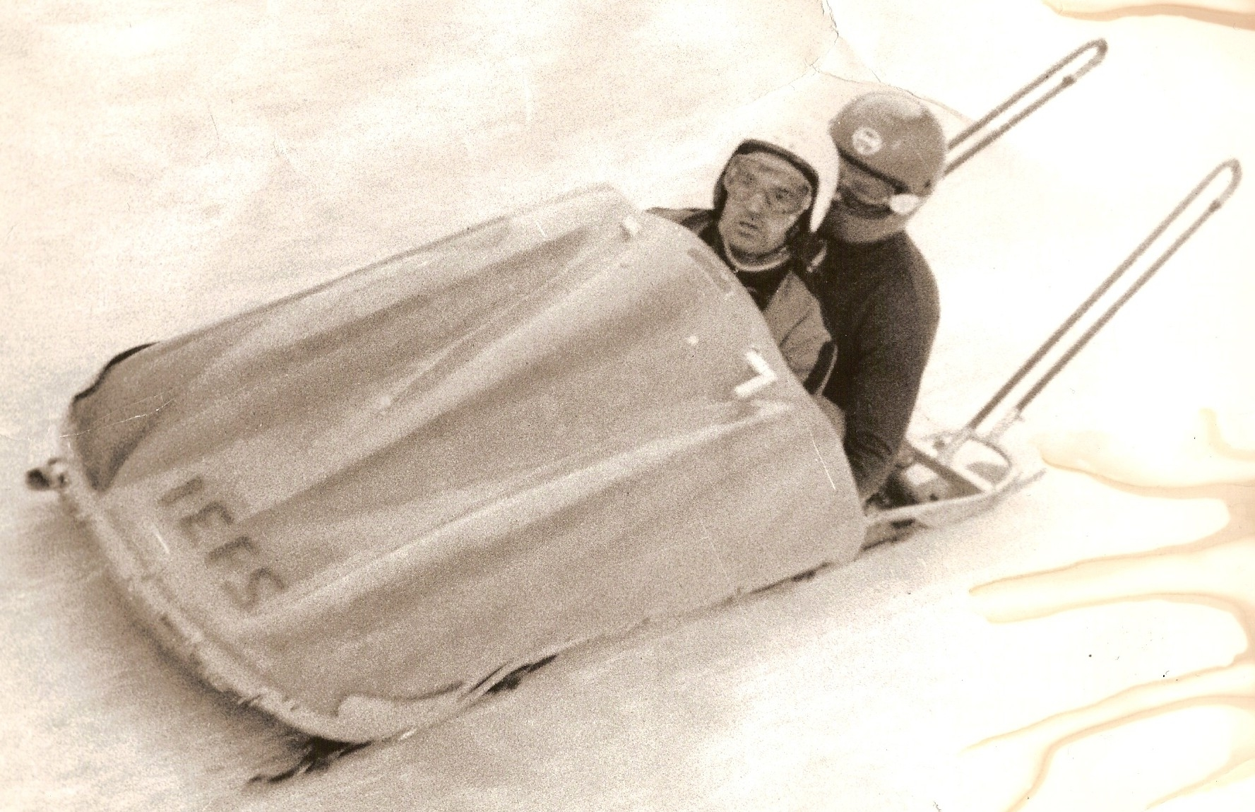 Nicolae Stavarache, Horia Iliesu during a bobsleigh race